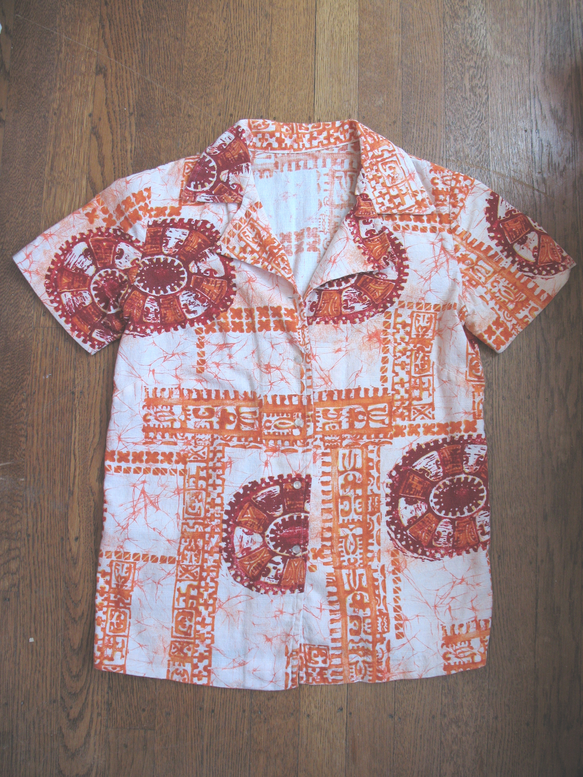 Vintage aloha shirt